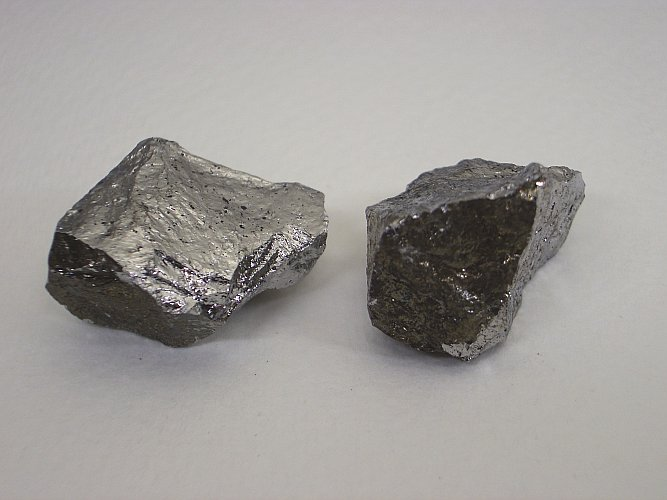 Two pieces of manganese metal